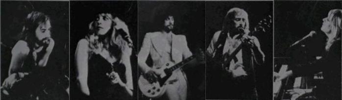 Trade ad for Fleetwood Mac's album Rumours.To better adapt it to his respective Wikipedia article, the ad was cropped and cleaned in a graphics editing program. The original can be viewed at the source below.